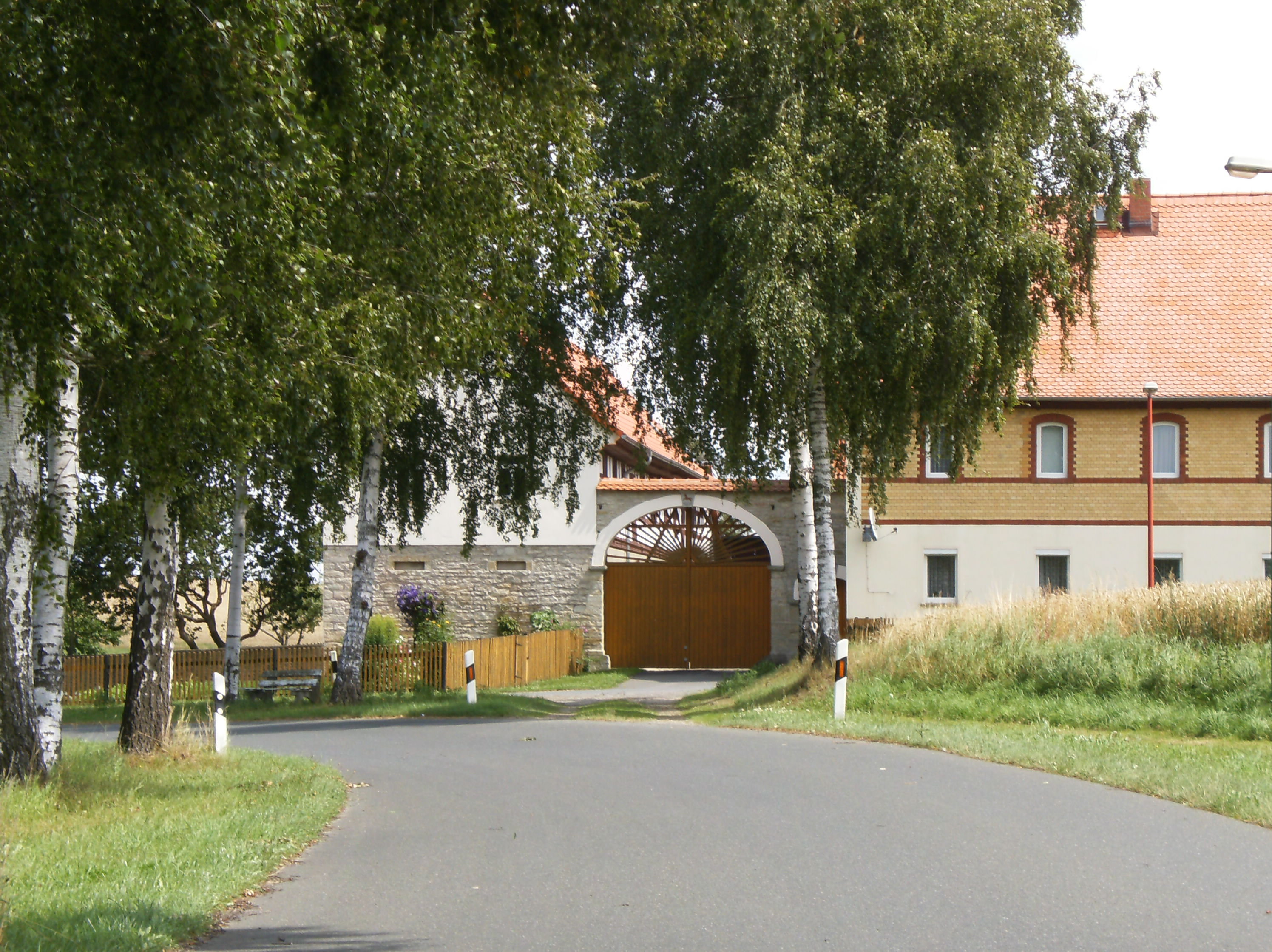 Gera Wernsdorf, ancient peasent's holding.